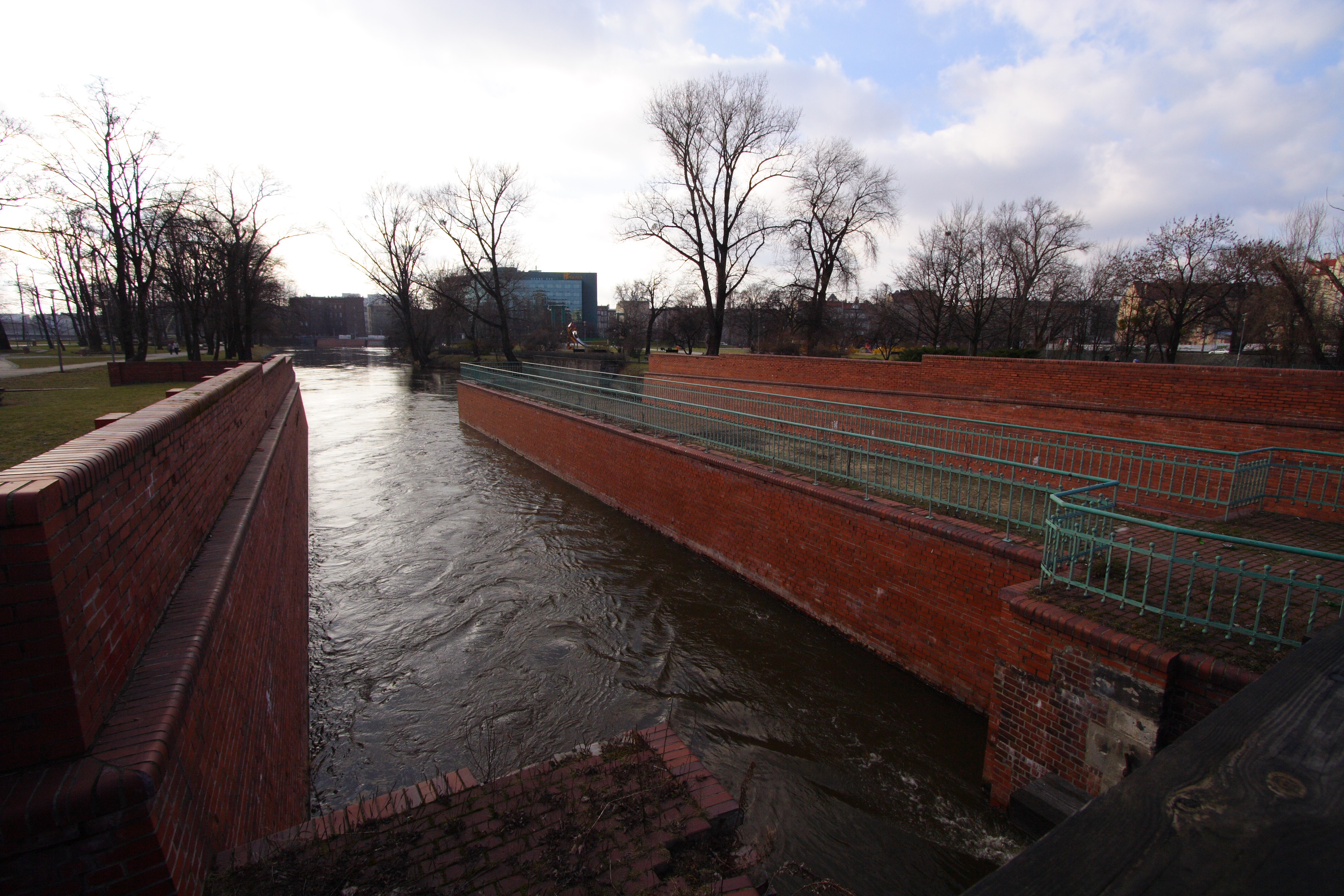 Wroclaw during WikiConference Poland'11